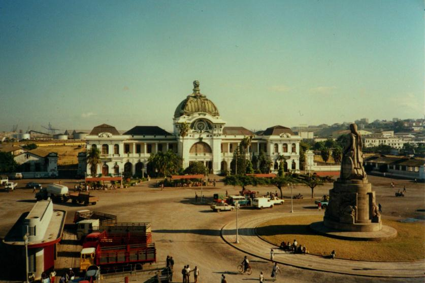 Maputo railway station (Mozambique) and Praça dos Trabalhadores (former Praça Mac Mahon) with the monument for those who died during World War I. The monument was inaugurated 11 November 1935.